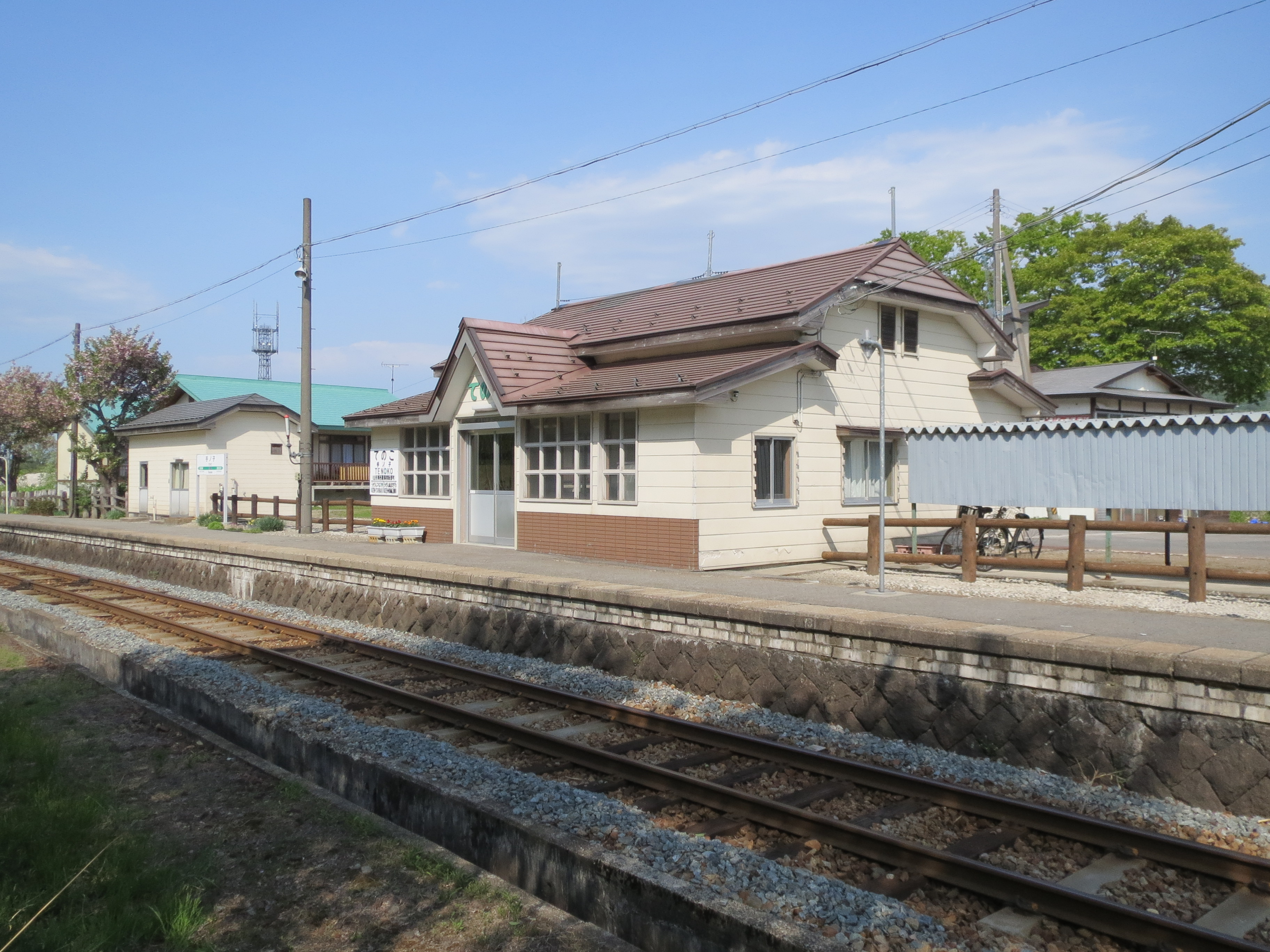 Tenoko Station in Iide Town, Yamagata Prefecture, Japan